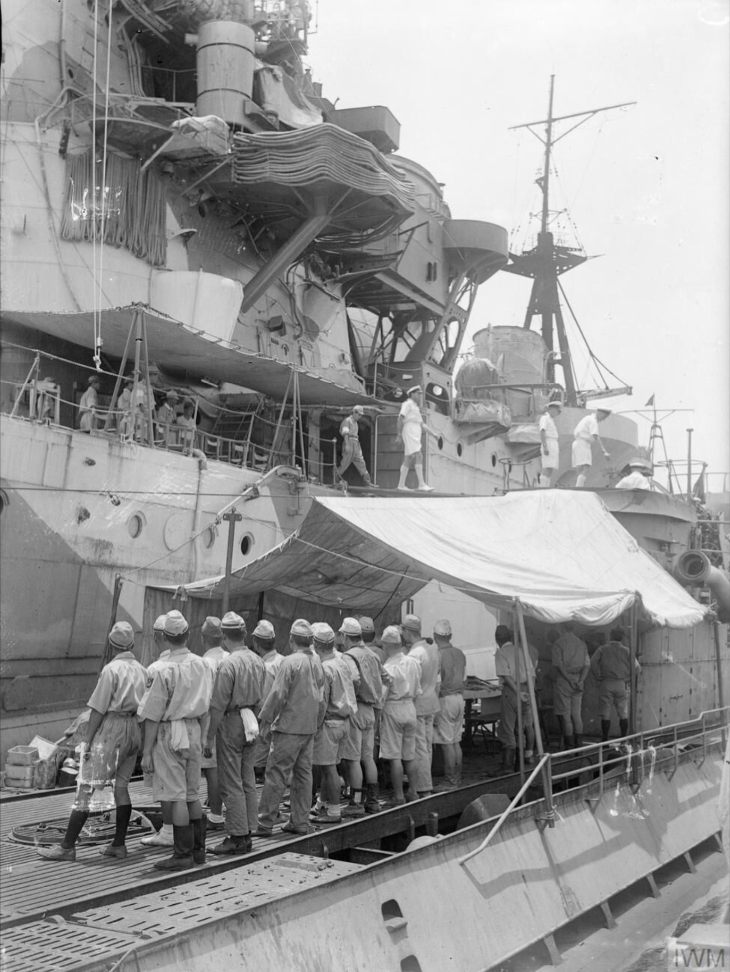 Captain Power visits the damaged Japanese cruiser. 25 September 1945, Singapore. In May 1944, five ships of the Twenty-Sixth Destroyer Flotilla attached to the British East Indies fleet, led by HMS Saumarez, with Captain M L Power, CBE, OBE, DSO AND BAR, as Captain (D), sank the Japanese cruiser Haguro in one hours action at the entrance to the Malacca Strait. When Saumarez entered Singapore Naval Base, Captain Power with his staff officers, paid a visit to Myoko, sister ship of Haguro, now lying there with her stern blown off after the Battle of the Philippines. Crossing to the deck of the Myoko via the conning tower of a German U-boat, Captain Power and his party were met by Japanese officers who took them on a comprehensive tour of the ship. Japanese sailors line up on the deck of a U-boat as Captain Power leaves the MYOKO